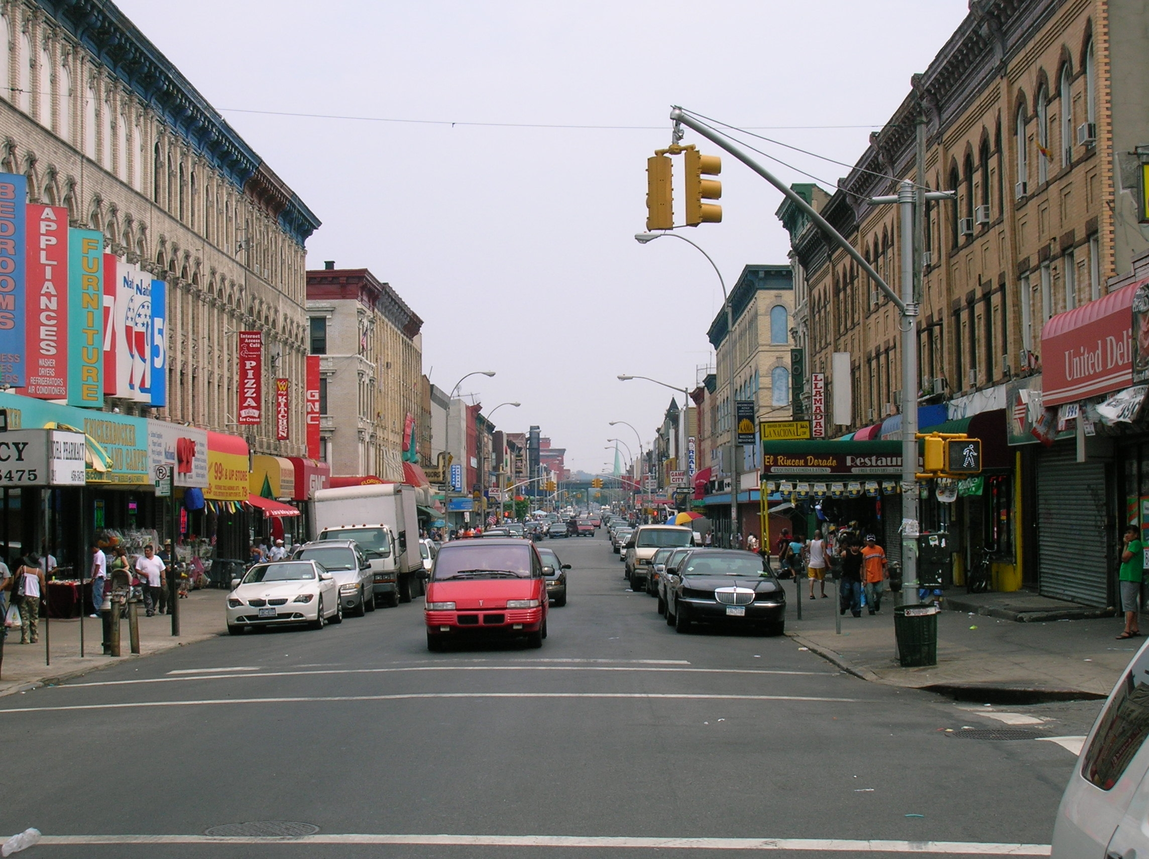 Looking southeast from Suydam Street along Kinckerbocker Avenue